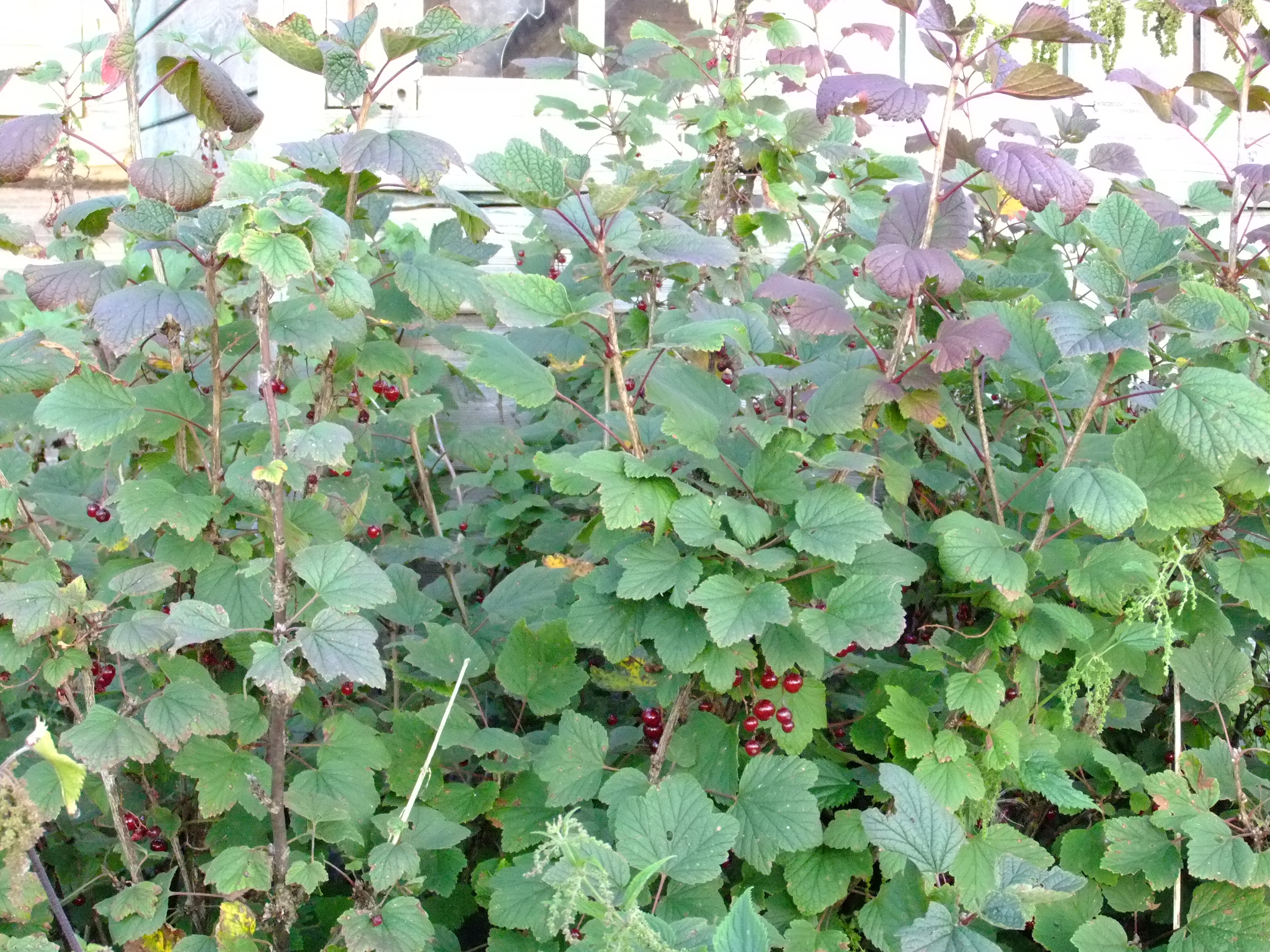 An apparently abandoned house in Menkovo village (Yaroslavl Oblast), near the village well. A red currant shrub with lots of fruit can be seen still prospering in the overgrown front yard